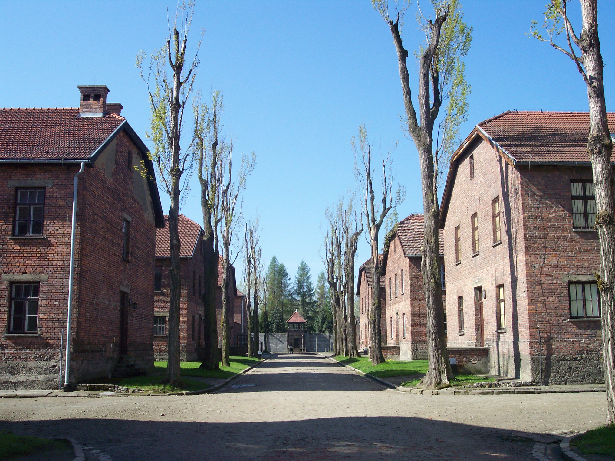 Concentration camp Auschwitz I